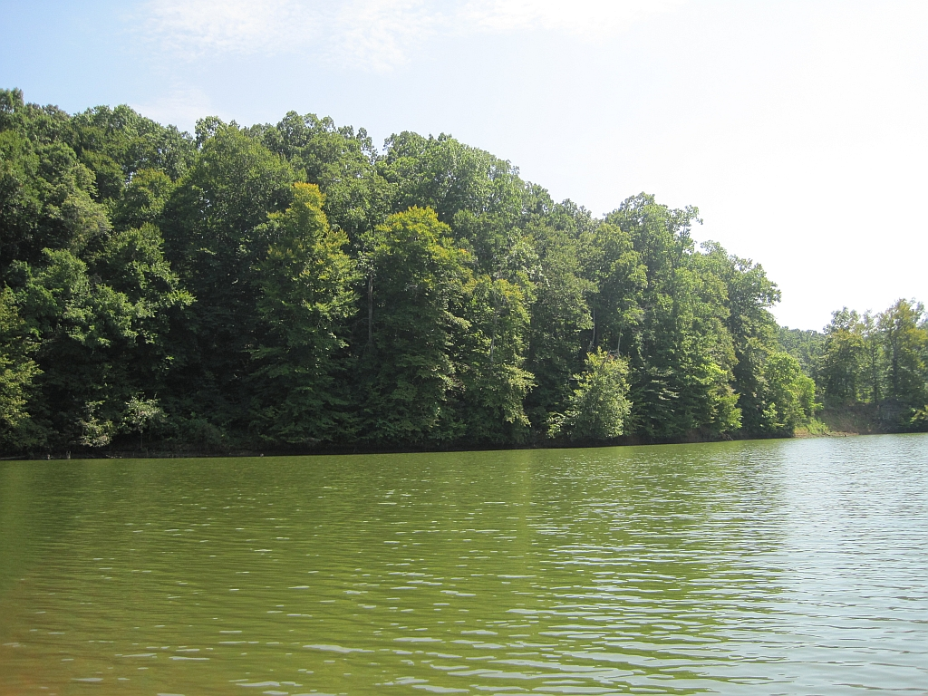 Village Creek State Park south of Wynne, Arkansas. Lake Dunn